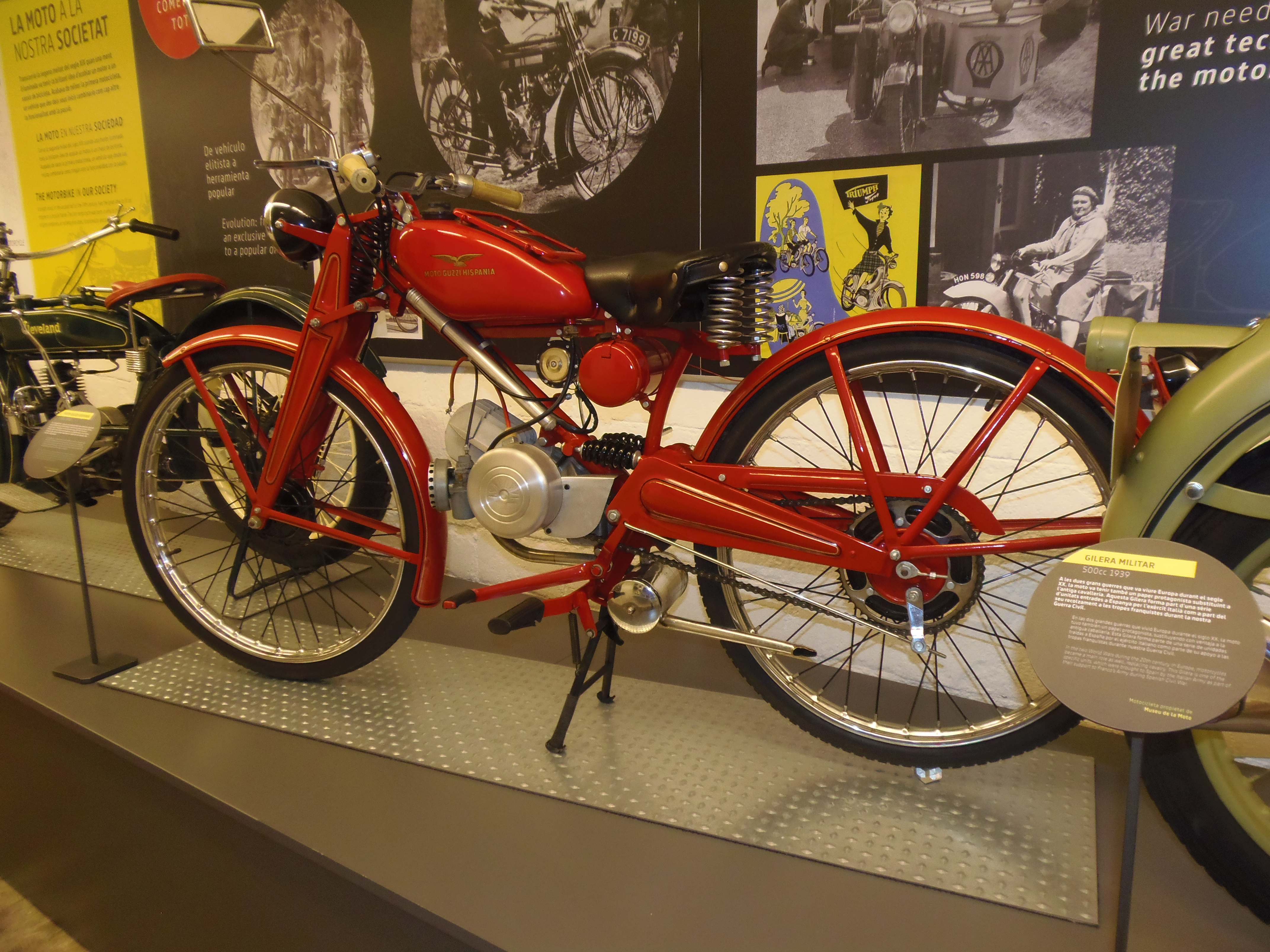 Moto Guzzi Hispania 65, 65cc (1953). The filename is wrong.Museu de la Moto de Barcelona (Catalonia).